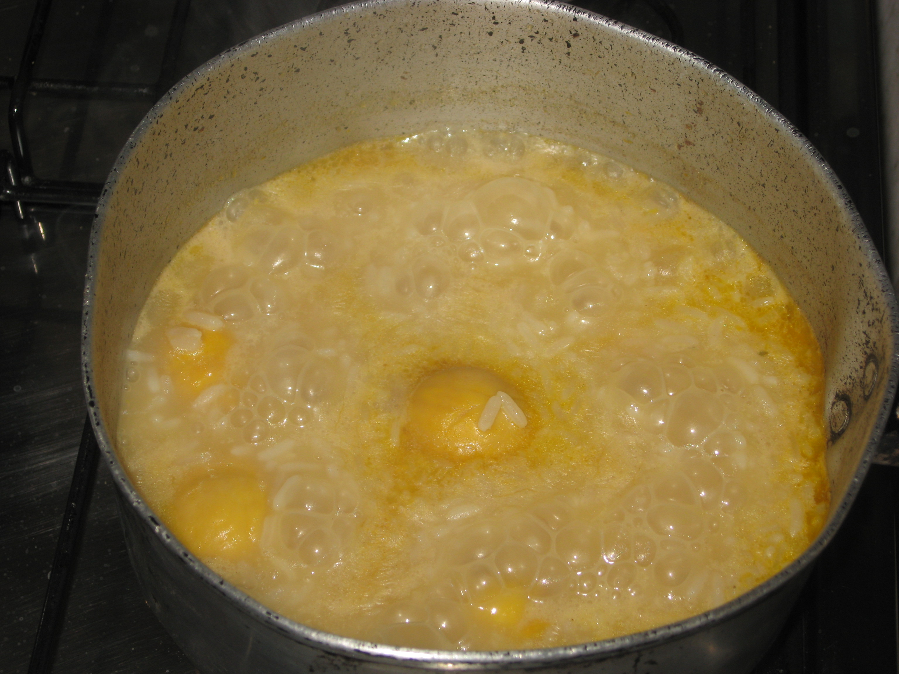 Brazilian cuisine:Rice with pequi (Caryocar brasiliense)